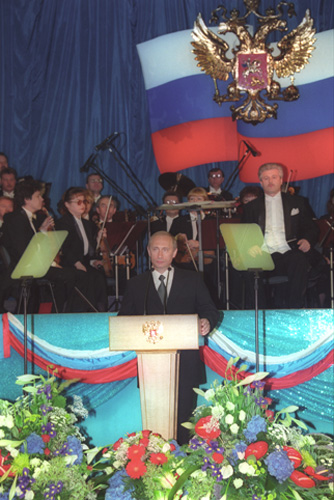 THE GRAND KREMLIN PALACE, MOSCOW. Speech at a party after the inauguration ceremony.